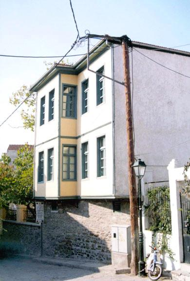 View from outside, image from the National Centre for Maps and Cartographic Heritage, National Map Library, Central Macedonia, Greece